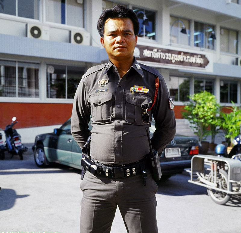 Royal Thai Police officer on duty. Photographer: Vladimir V. Samoilov (User:Rolleiflex, vs at fotography.ru) Date: August, 2004 Location: Hua Hin, Thailand